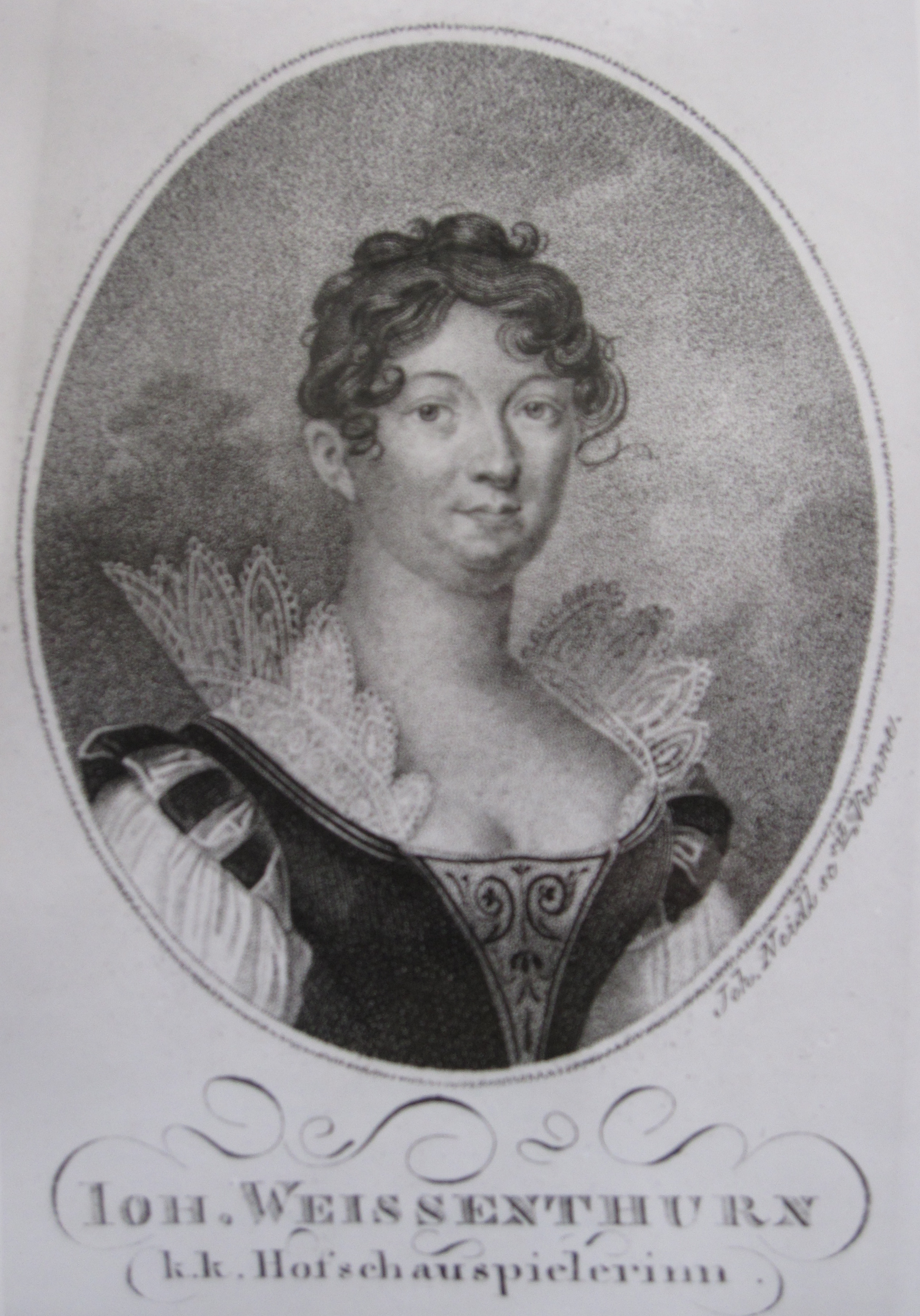 Picture from Johanna von Weissenthurn as actress